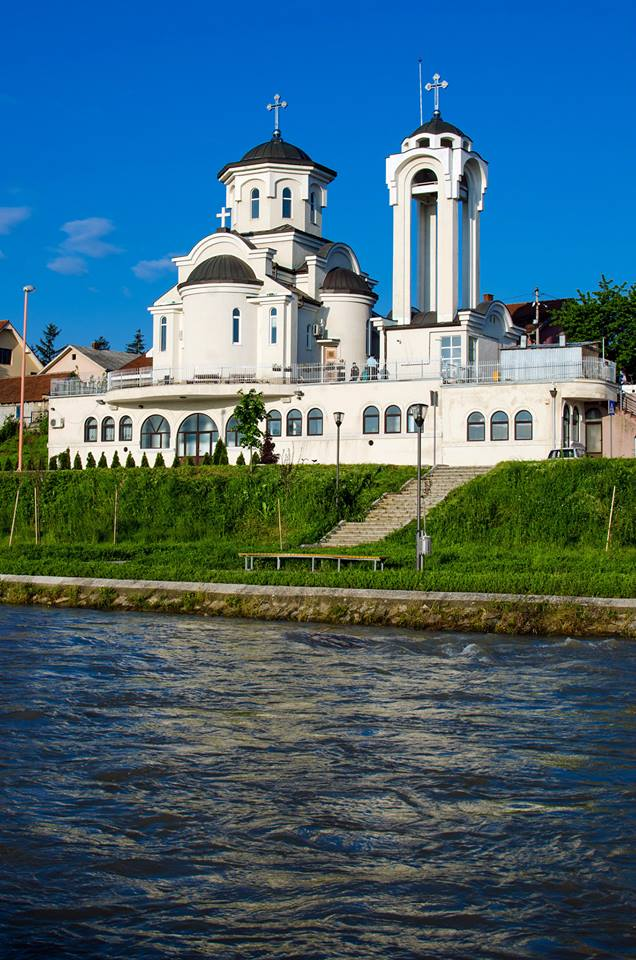 Church of Pokrov Presvete Bogorodice in Kruševac Српски (ћирилица): Црква Покрова Пресвете Богородице у Крушевцу